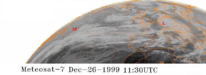 Ifra-red satellite photo of 12 UTC on December 26, 1999, showing the clouds pattern of storms Martin (M) and Lothar (L) that hit Europe with damaging winds.